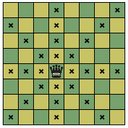 Example board showing the possible moves of a queen: any number of squares in any orthogonal or diagonal direction. Made with XBoard and GIMP, released to public domain.